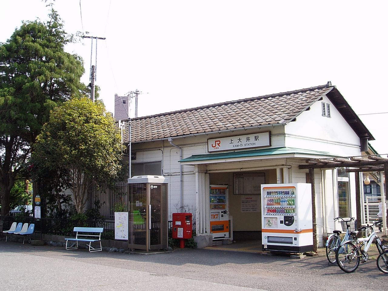 Kami-Oi Sta.